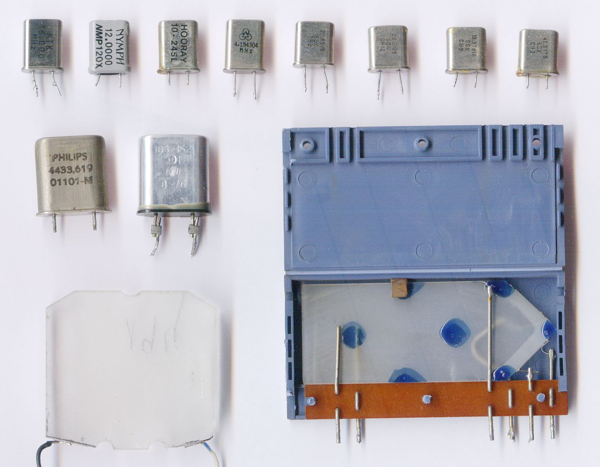 A collection of old quartz crystal units used in crystal oscillators in electronic equipment. Public domain. Note,the largest component pictured is not a crystal,it is an ultrasonic delay line as used in a colour TV.